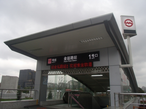 No. 1 exit of the Jinyun Road metro station in Shanghai